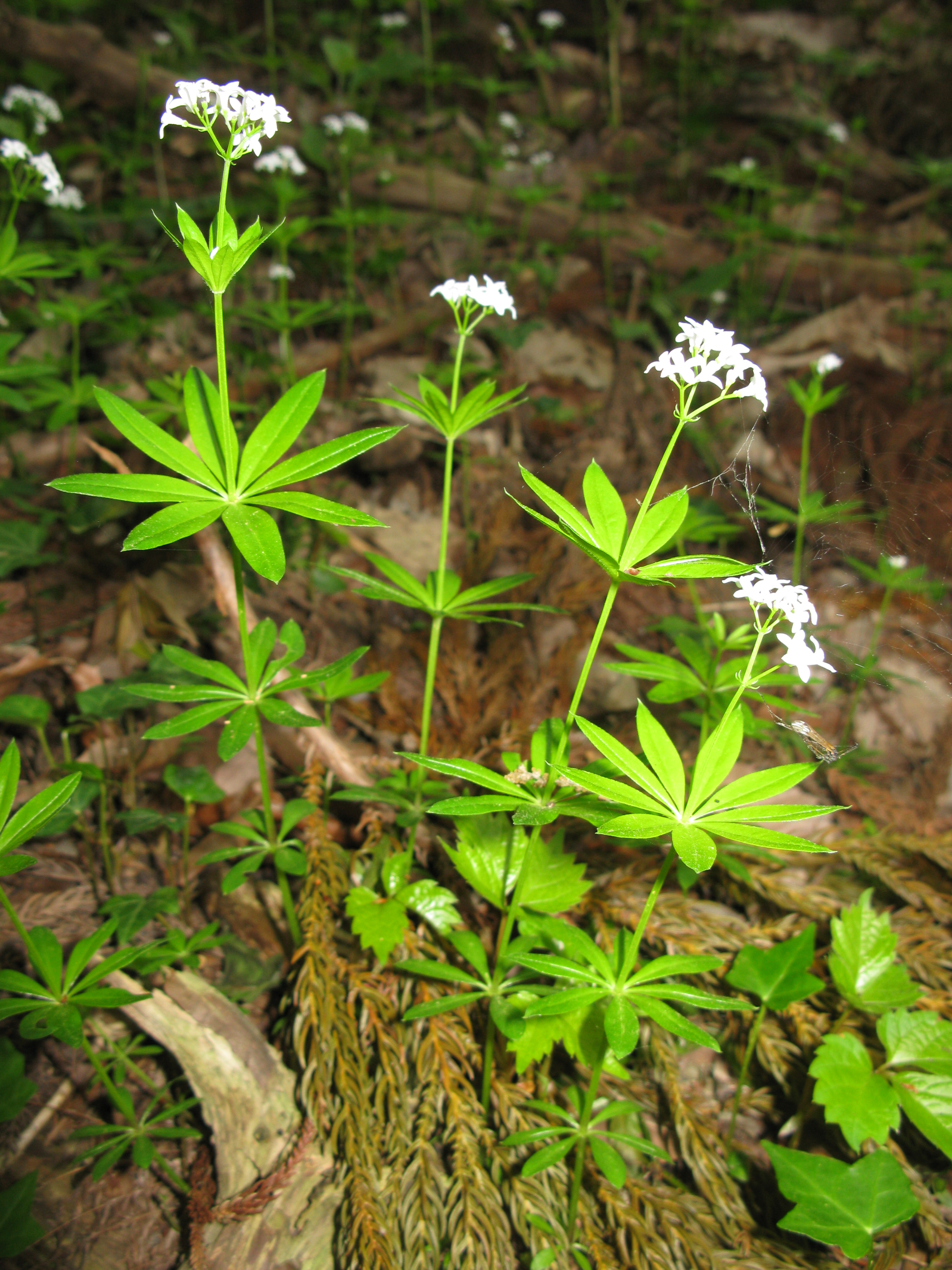 Galium odoratum , Aizu area, Fukushima pref., Japan